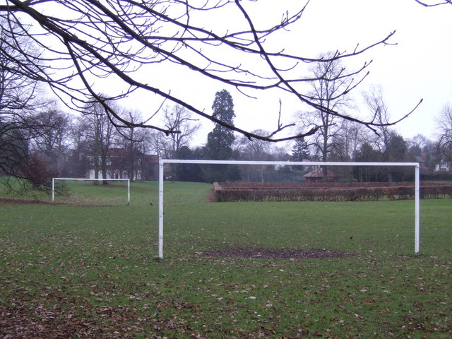 Baysgarth Park, Barton-upon-Humber. Baysgarth Park in Barton Upon Humber is thirty acres of recreational space off Brigg Road to the south of the town. Baysgarth House, just visible , contains Baysgarth Museum which illustrates the history, archaeology, flora and fauna of the district.